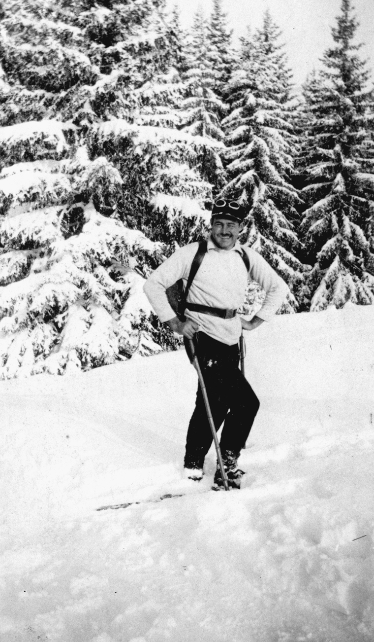 Ernest Hemingway skiing. Gstaad, Switzerland. On reverse [typed]: "This is to re-assure you if you hear reports of another of your authors dying of drink." [signed]: "Ernest Hemingway, Feb 1927".